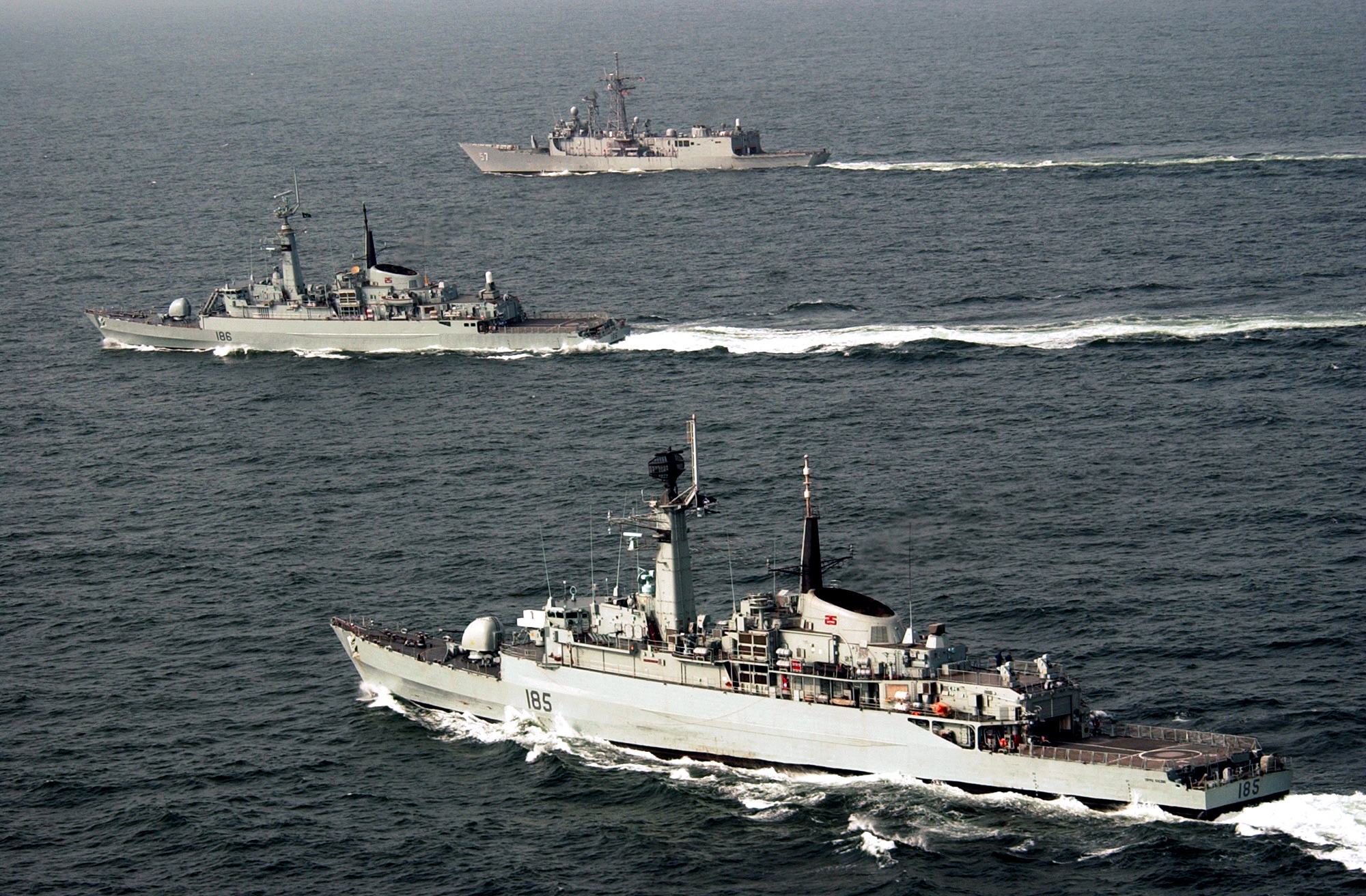 USS Rueben James along with Pakistan Navy Ship (PNS) Shahjahan and PNS Tippi Sultan are currently participating in Exercise Inspired Siren 2002